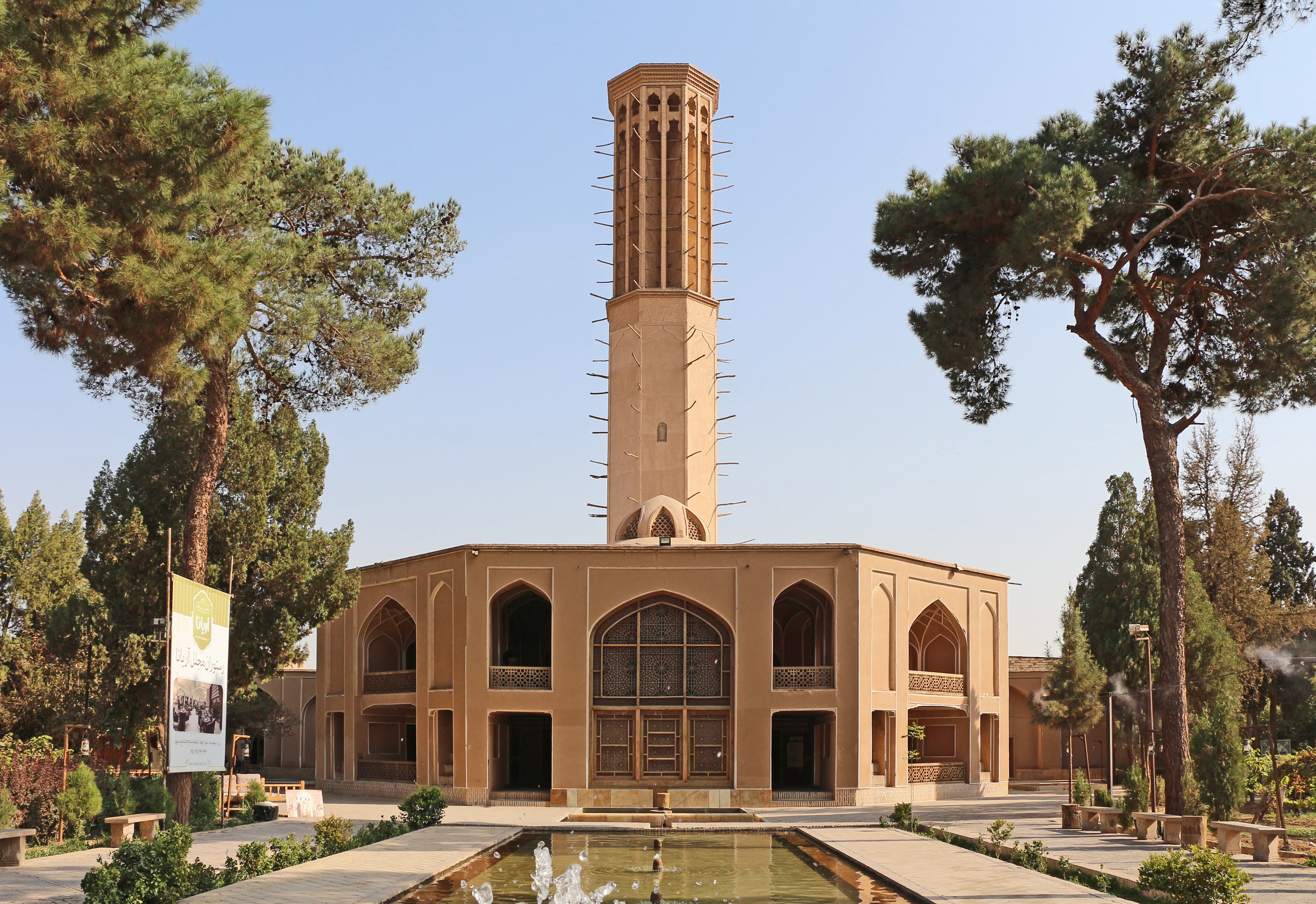 Pavilion in the Dolat Abad Garden, Yazd, Iran